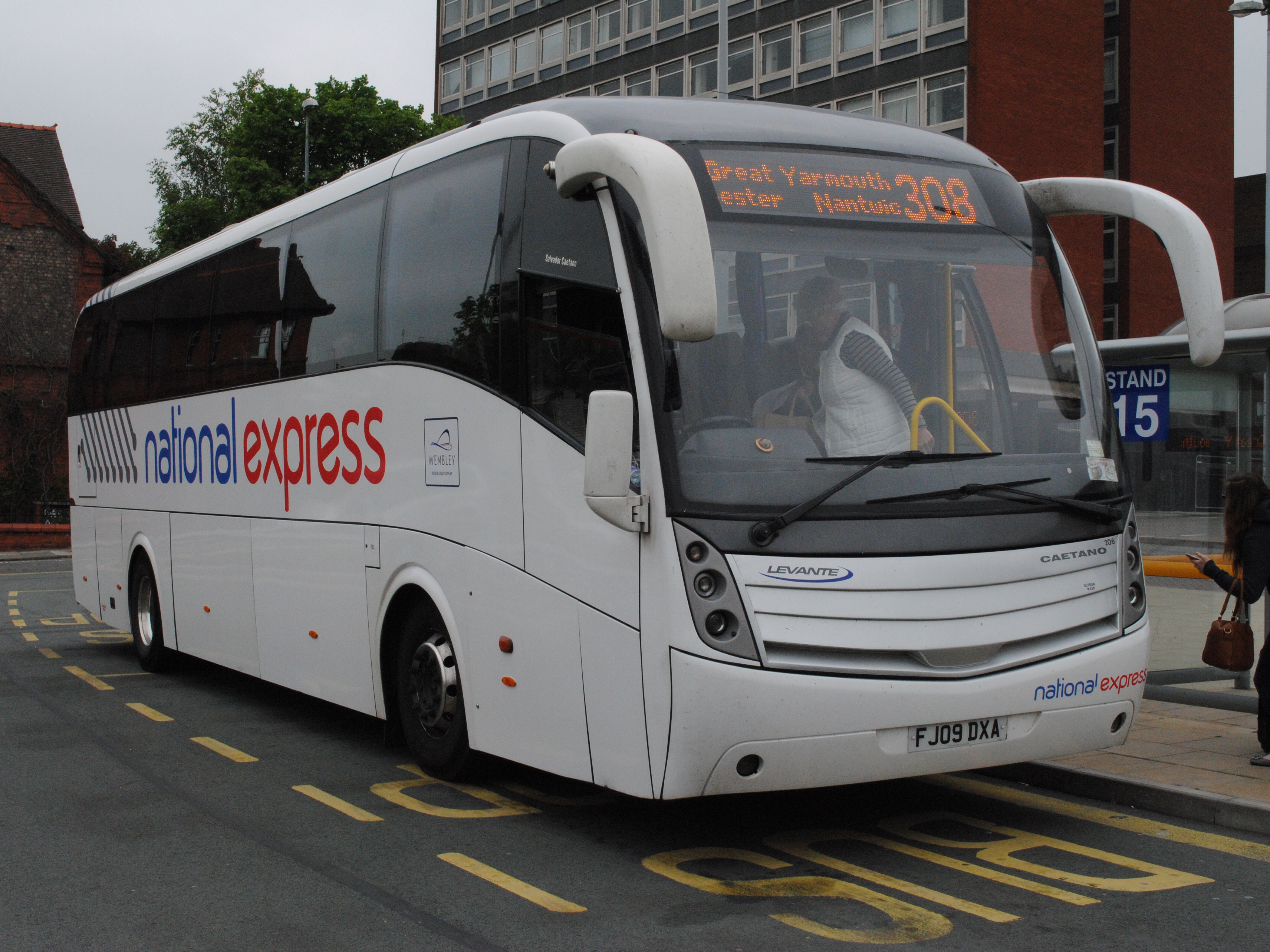 Scania K340 EB4 Caetano Levante. National Express 308 Birkenhead - Great Yarmouth route seen here in Chester Bus Exchange